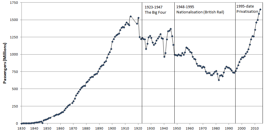 Image produced by myself in Microsoft Excel, adding new information onto an earlier chart produced by Tompw The data comes from: ATOC's 2008 publication Billion Passenger Railway for 1830 to 2001 The UK Office of Rail Regulation (ORR), specifically Passenger journeys by sector - table for 2002 onwards. The plotted data is the sum of the "Total franchised passenger journeys" and "Non franchised" columns From 1984 onwards, the point plotted at a given year is actually the last three quarters of the year given and the first quarter of the year afterwards. So, the point at "1985" is the year from April 1985 to March 1986.